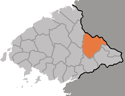 Map of Unsan, Pyongan-pukto, DPRK, 2006